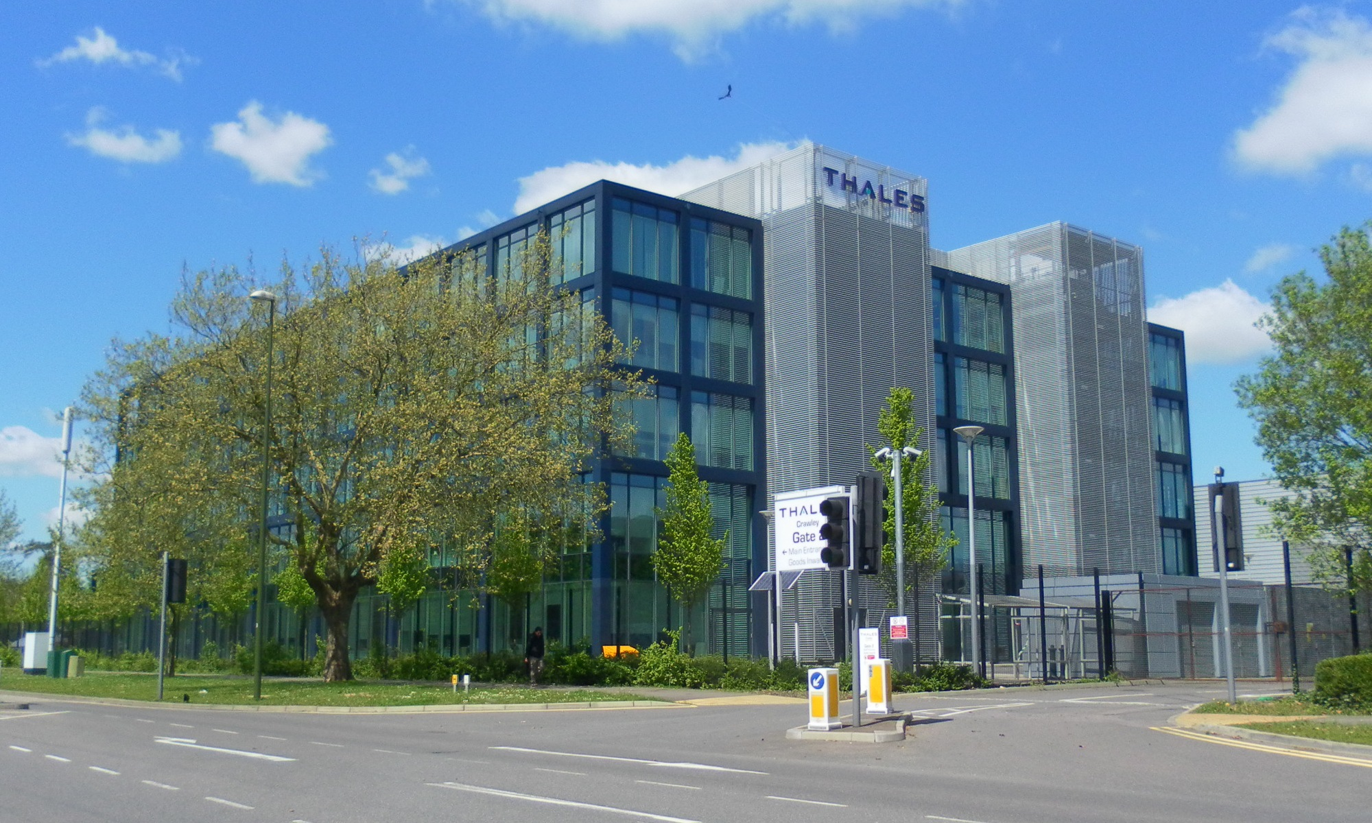 Thales Building, Manor Royal, Crawley, West Sussex, England.